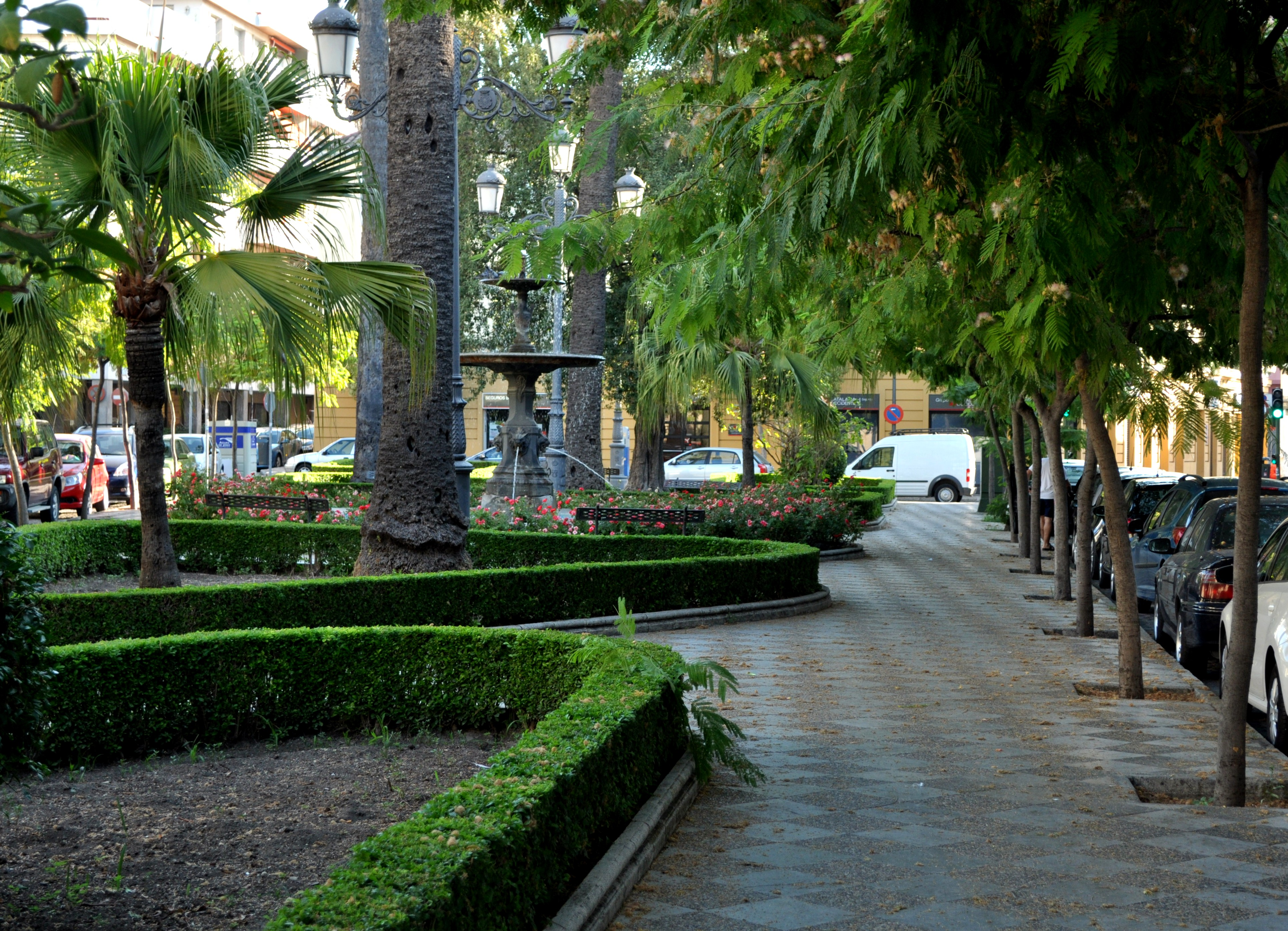 Aladro Square. Garden and fountain. Jerez